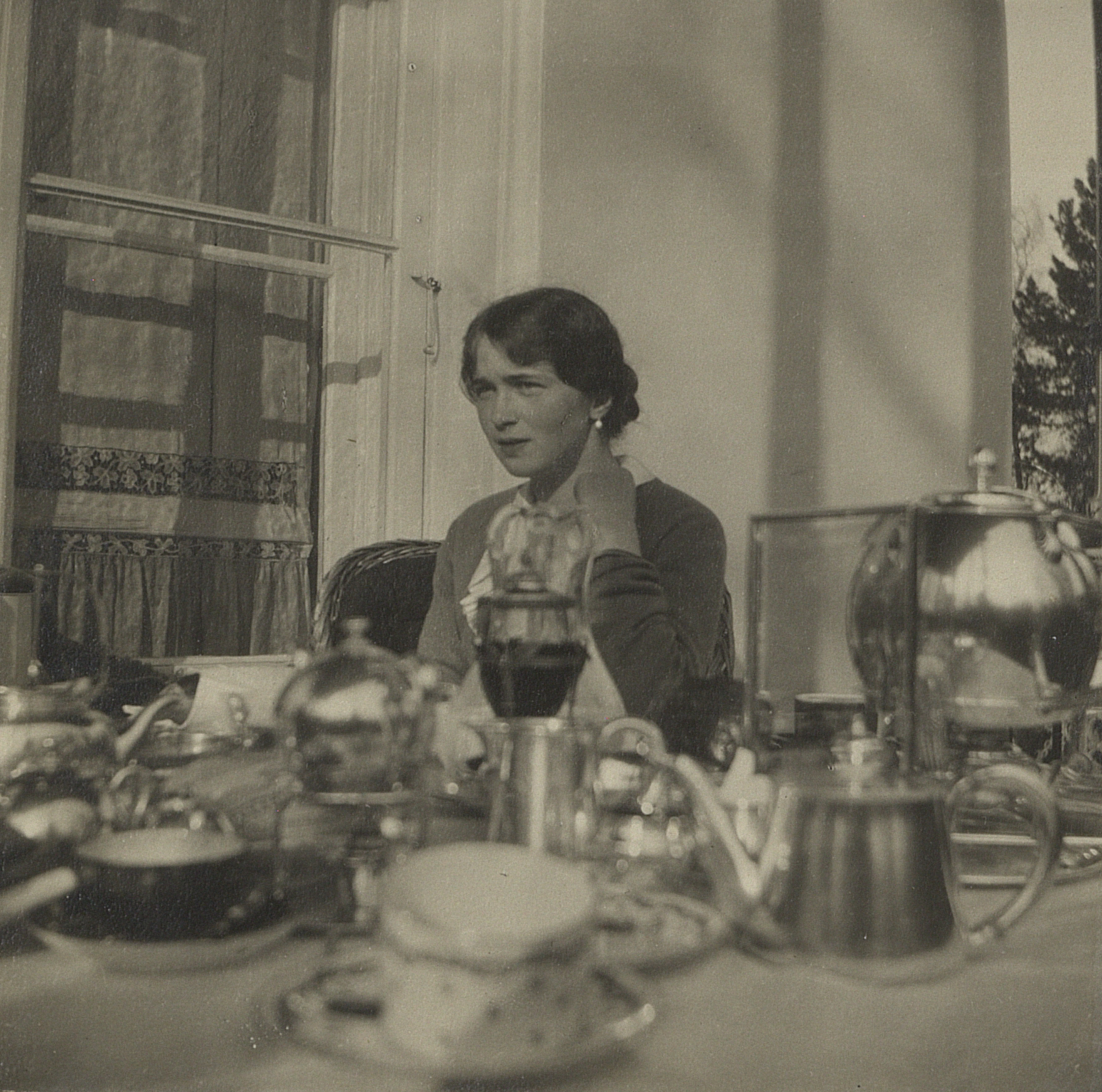 Olga Nikolaevna Romanova, Tsarskoe Selo